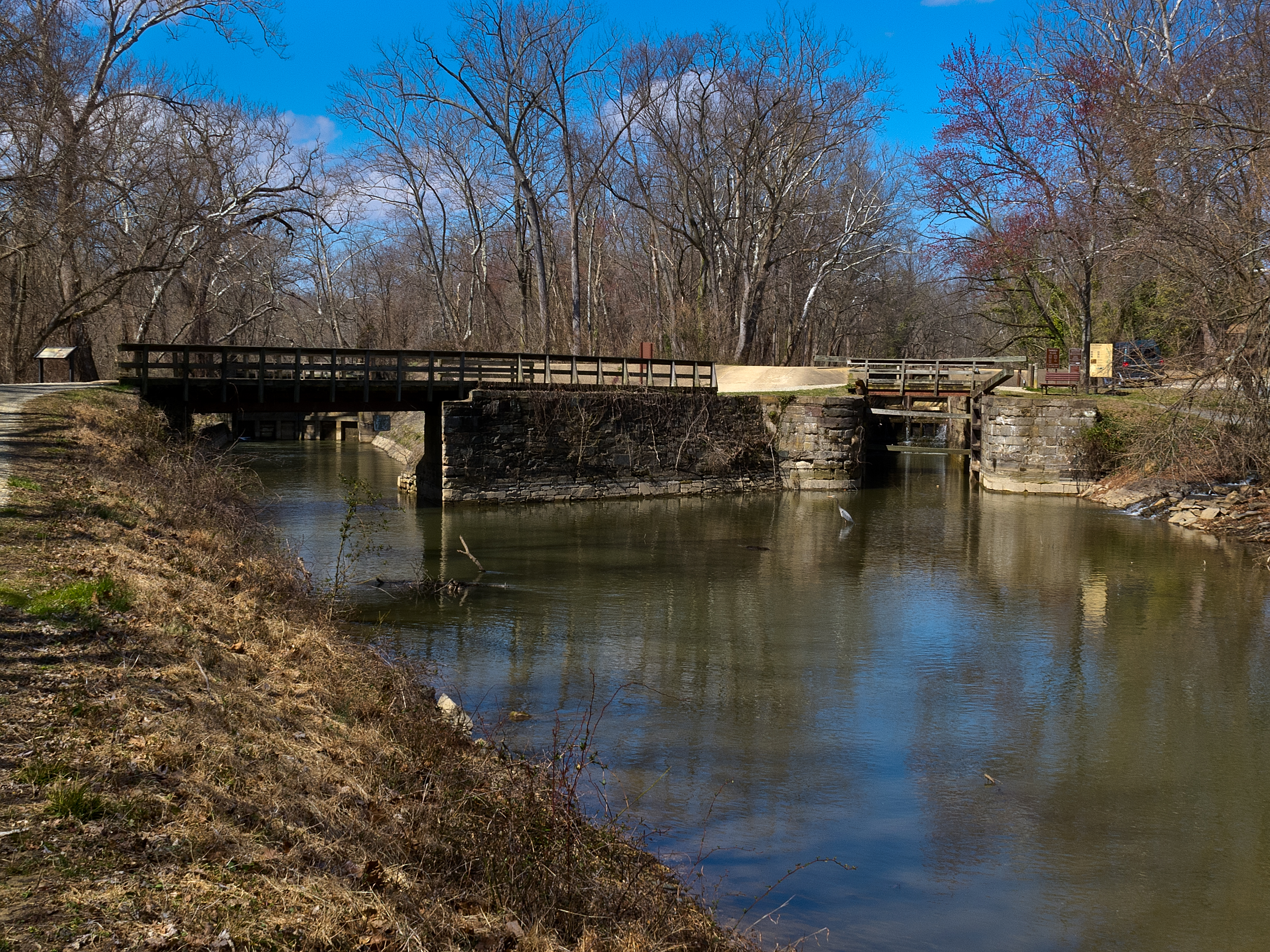 Lock 5 (right) on the C & O Canal, with Inlet lock #1 (left). The inlet feeder canal to the left is what is left of George Washington's Patowmack Little Falls Skirting Canal, repurposed to feed the Chesapeake and Ohio Canal. Note that the feeder canal has 2 inlet locks, and this is the downstream of the 2 inlet locks.